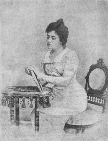 Russian writer Isabella Arkadyevna Grinevskaya (1864-1944). Published In the Illustrated Supplement to the magazine "New Time", No. 10015 January 21 (February 3) 1904, p. 10.